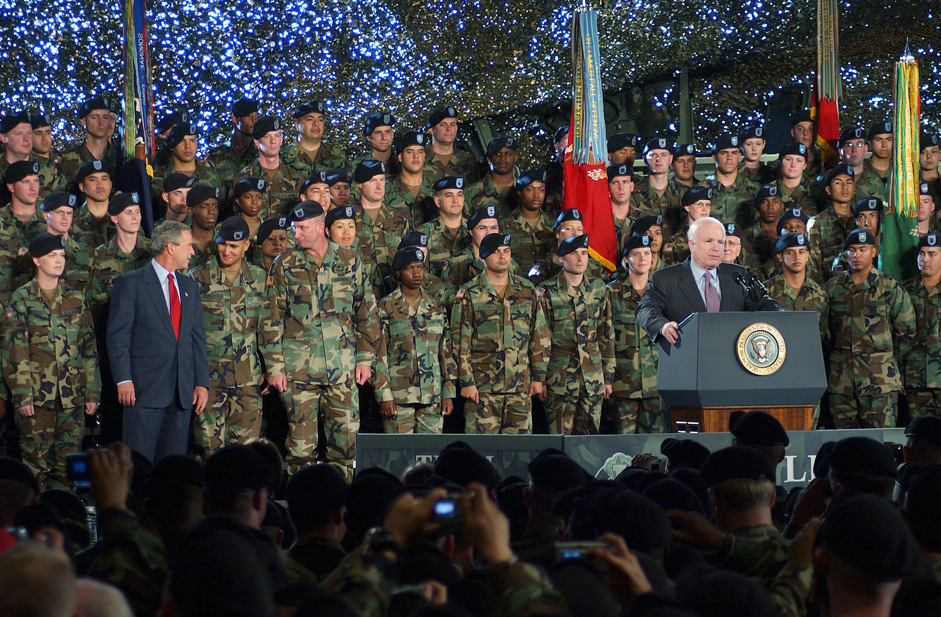 As Arizona Senator John McCain (R) prepares to speak to a gathering of service members and their families at Fort Lewis, Washington (WA), US President George W. Bush converses with several Soldiers on stage. The pair spoke about the war on terrorism and the importance of family support for deployed service members. Location: MCCHORD AIR FORCE BASE, WASHINGTON (WA) UNITED STATES OF AMERICA (USA)